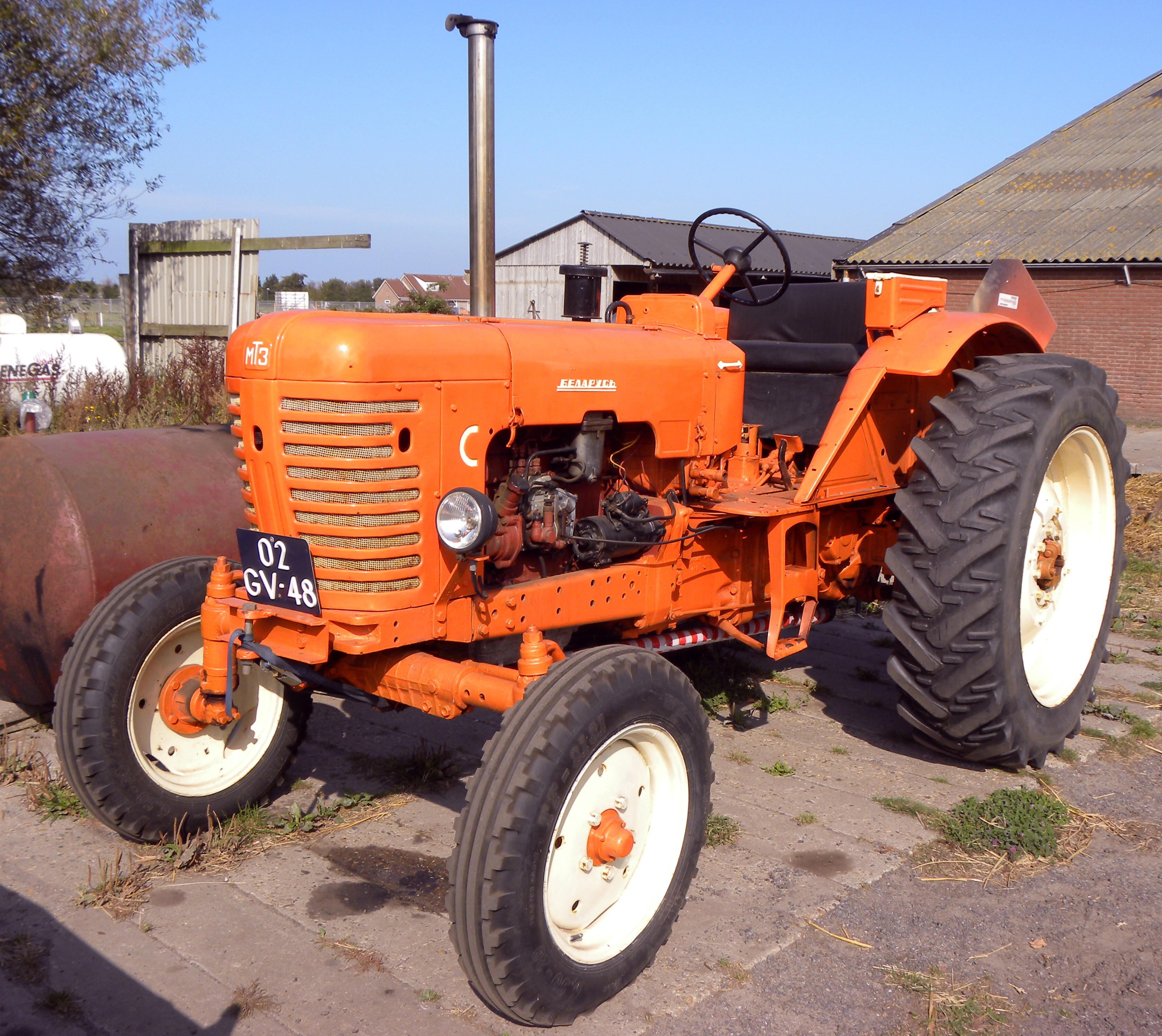 Orange Belarus MT 3 tractor.